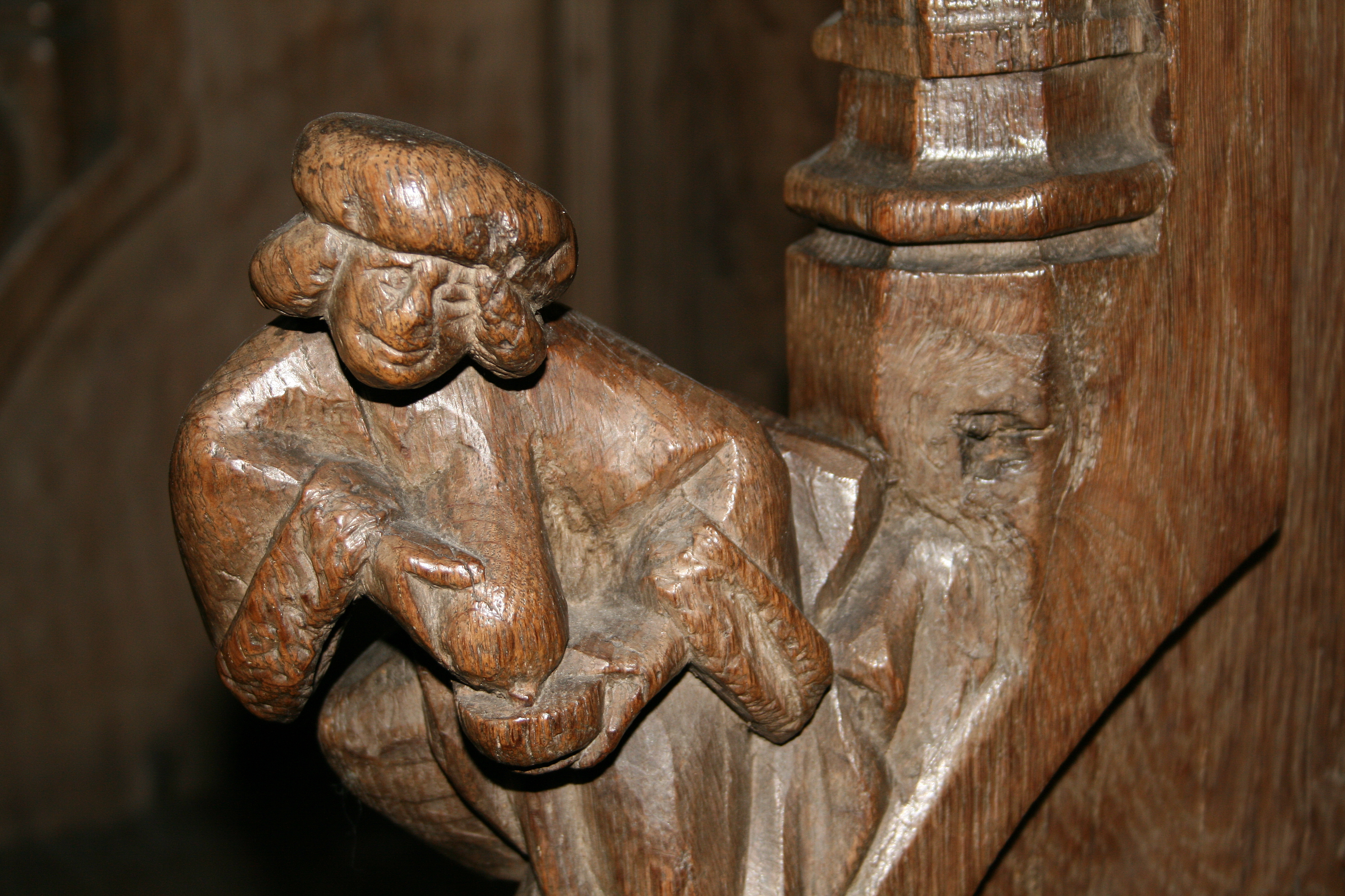 statuette of a parclose representing a woman who presses her breast to collect milk in a bowl (a satire nourrice). - Stalls of the Basilica of Saint Materne (XVIth century) - Walcourt (Belgium).